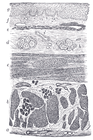 Section of the human esophagus. (From a drawing by V. Horsley.) Moderately magnified. The section is transverse and from near the middle of the gullet. a. Fibrous covering. b. Divided fibers of longitudinal muscular coat. c. Transverse muscular fibers. d. Submucous or areolar layer. e. Muscularis mucosæ. f. Mucous membrane, with vessels and part of a lymphoid nodule. g. Stratified epithelial lining. h. Mucous gland. i. Gland duct. m’. Striated muscular fibers cut across.